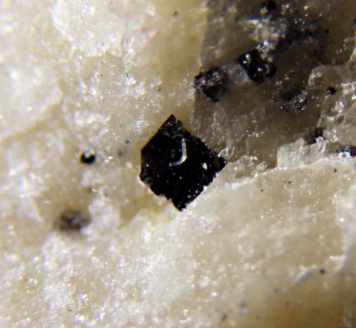 Sharp cubic black crystals of apuanite from the type and only known locality worldwide: Buca Della Vena Mine, Apuan Alps, Lucca Province, Tuscany, Italy.